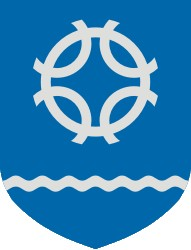 Coat of Arms of Hanila Parish